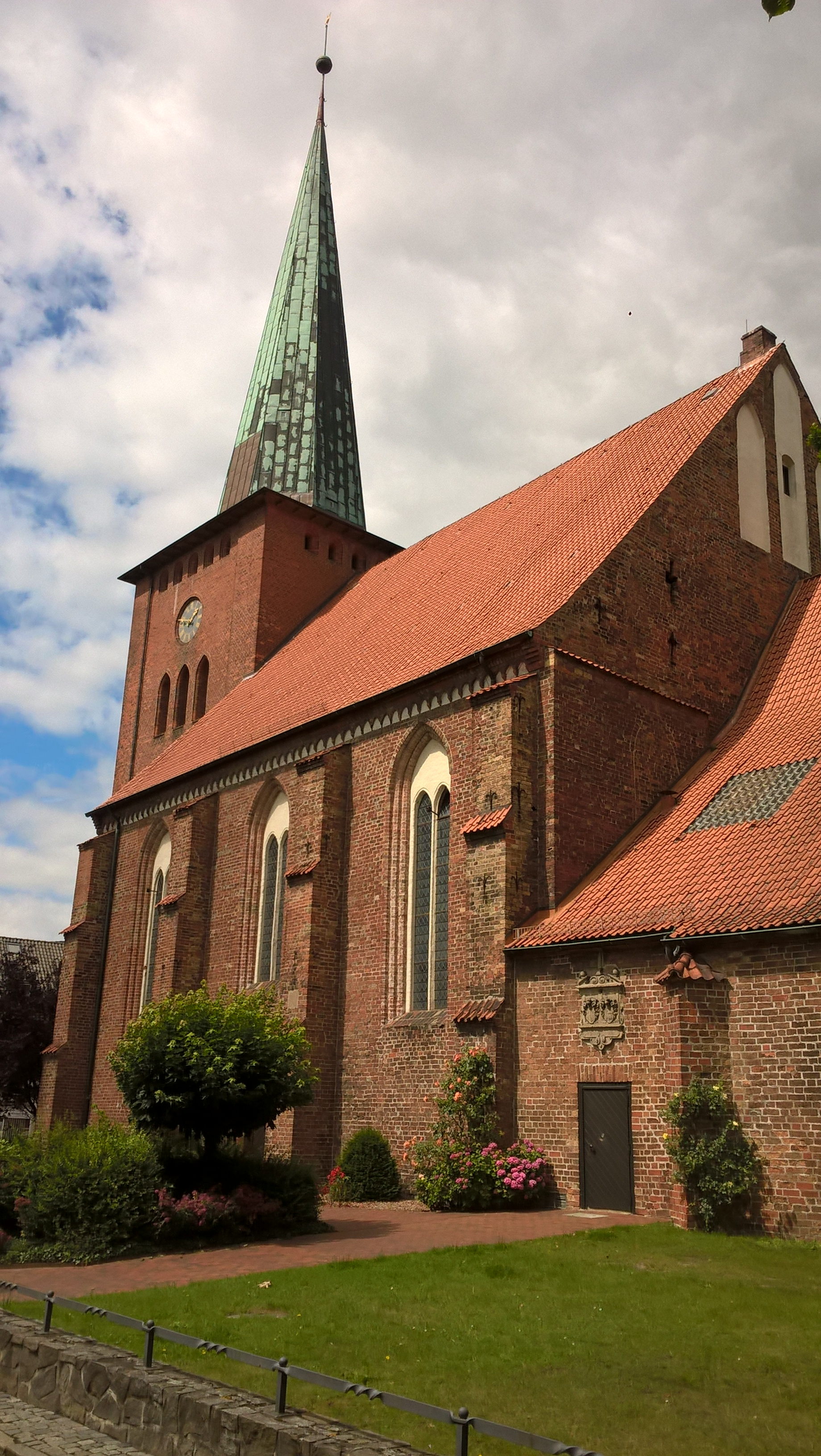 Stadtkirche Neustadt in Holstein, south side.